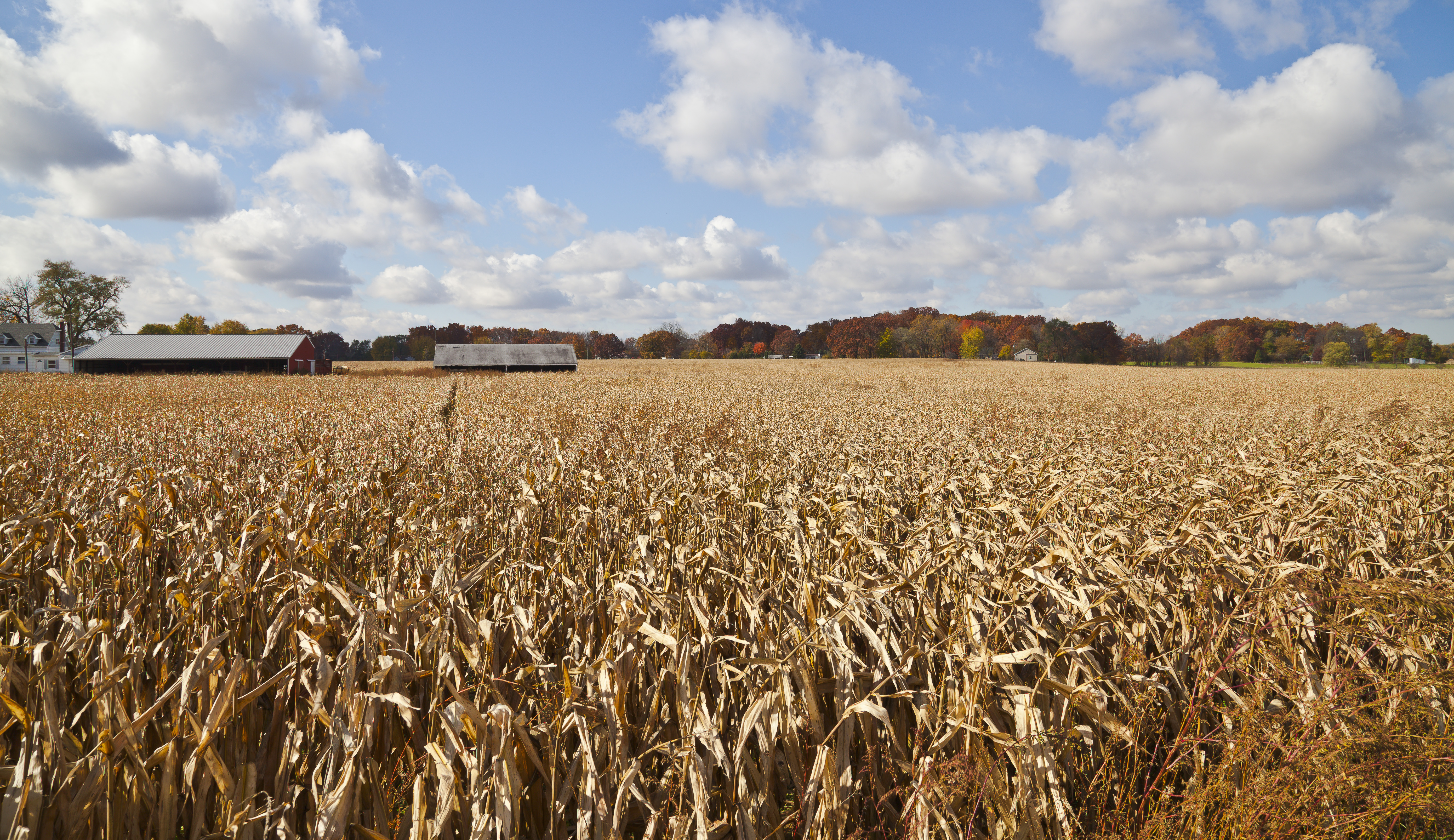 Cornfield, Walker, Indiana, USA